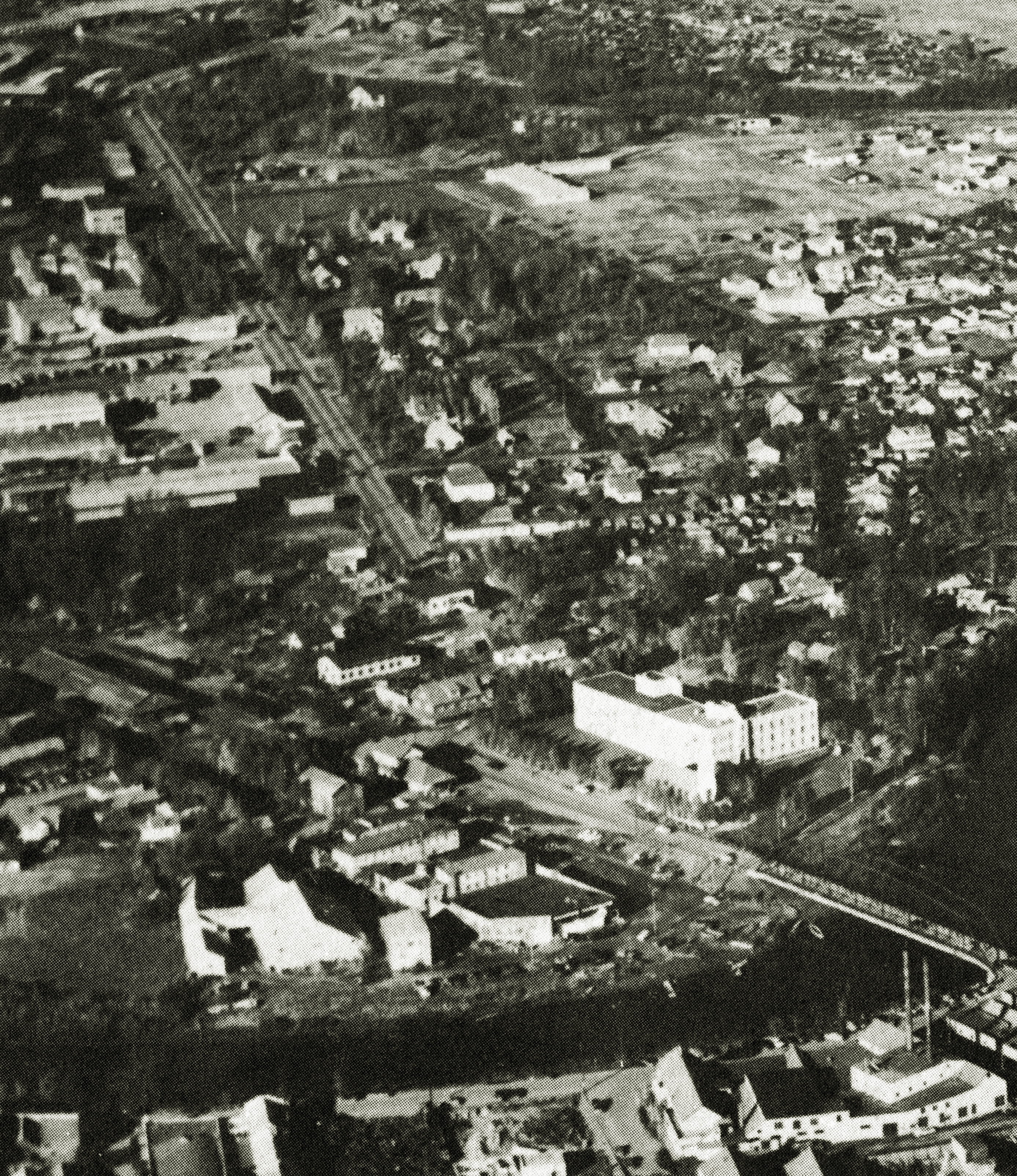 Aerial view of the part of Fairbanks, Alaska north of the Cushman Street Bridge, with a small part of downtown Fairbanks seen along the bottom edge. Towards the bottom is Garden Island, originally a separate community, and the Catholic Tract, home to Immaculate Conception Church and St. Joseph's Hospital. At middle left is the complex of the Fairbanks Exploration Company, which forms the core of the current Illinois Street Historic District. At middle right is the former Charles Slater farm, which became the Slaterville neighborhood. At top is the former Bentley Dairy and the beginnings of Bobby's Miller's junkyard, which occupied the dairy property until the construction of the Bentley Mall in 1976/7. The road through the dairy property (the eastern end of College Road today) and Illinois Street leading to the bridge formed the southern end of the Steese Highway during its first quarter-century of existence. At the time of this photo, this was soon to change as the Wendell Street Bridge was under construction and the Steese's southern terminus was rerouted; it would again be rerouted in 1976 with the construction of the Steese Expressway and another bridge across the Chena River.